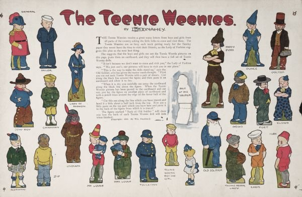 Teenie Weenie character description